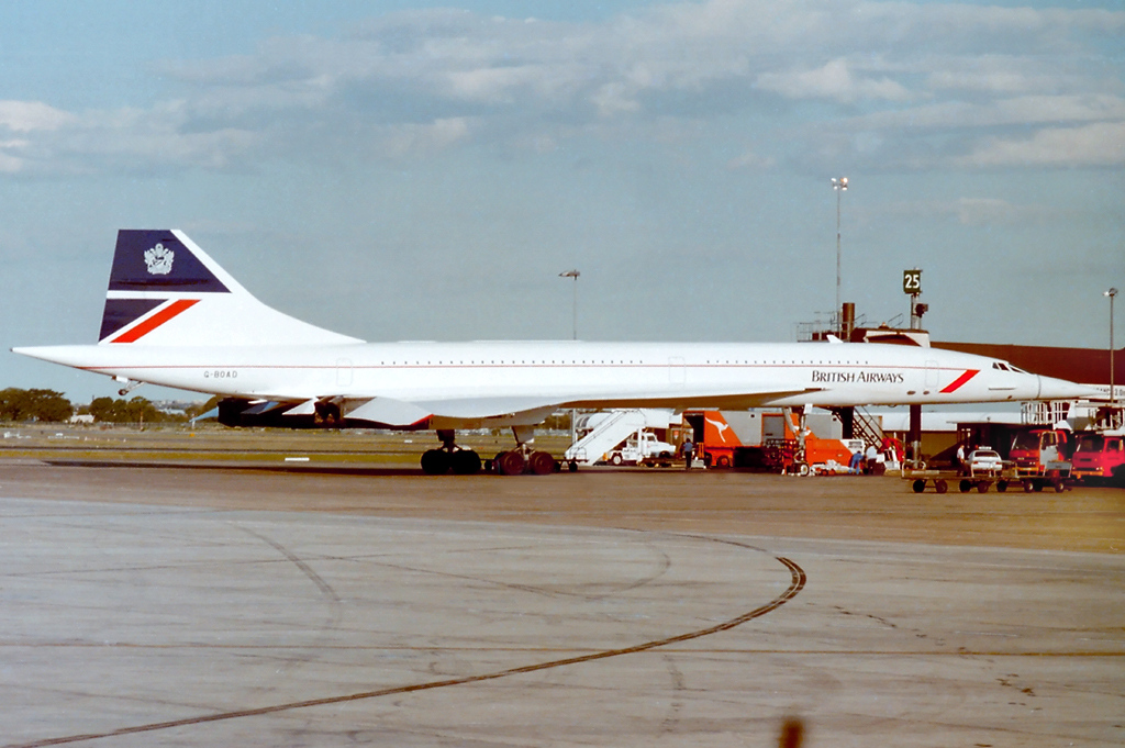 British Airways Concorde (G-BOAD) at Sydney Airport